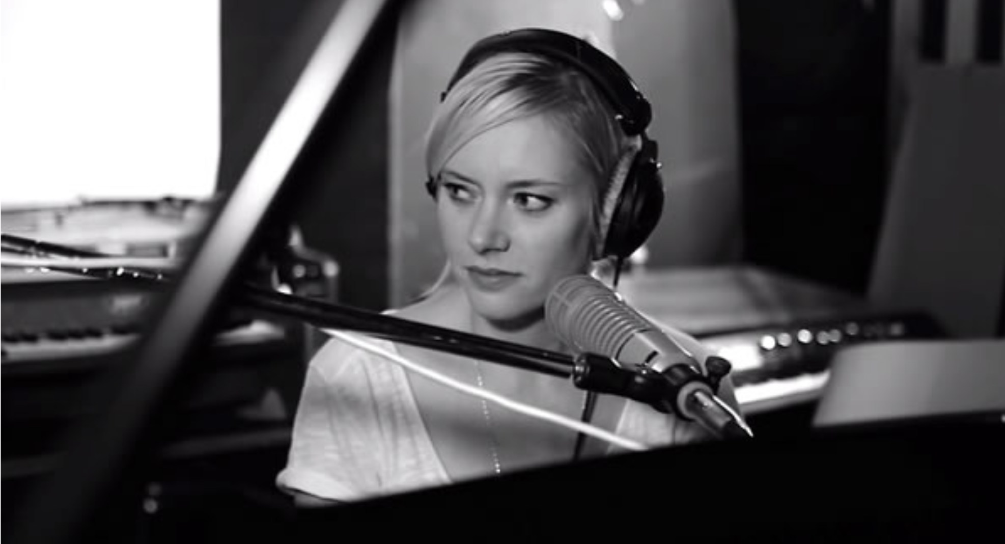 Fredrika Stahl Live Session at Studio Pigalle 2014